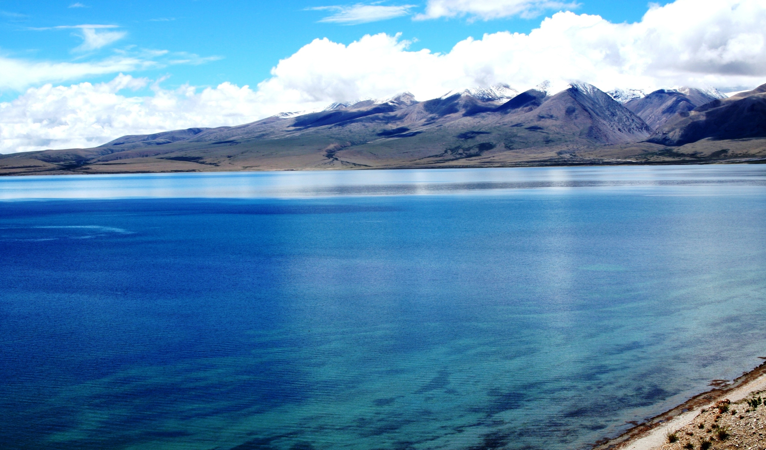 Lake Mansarovar and the Tibetan Himalayas